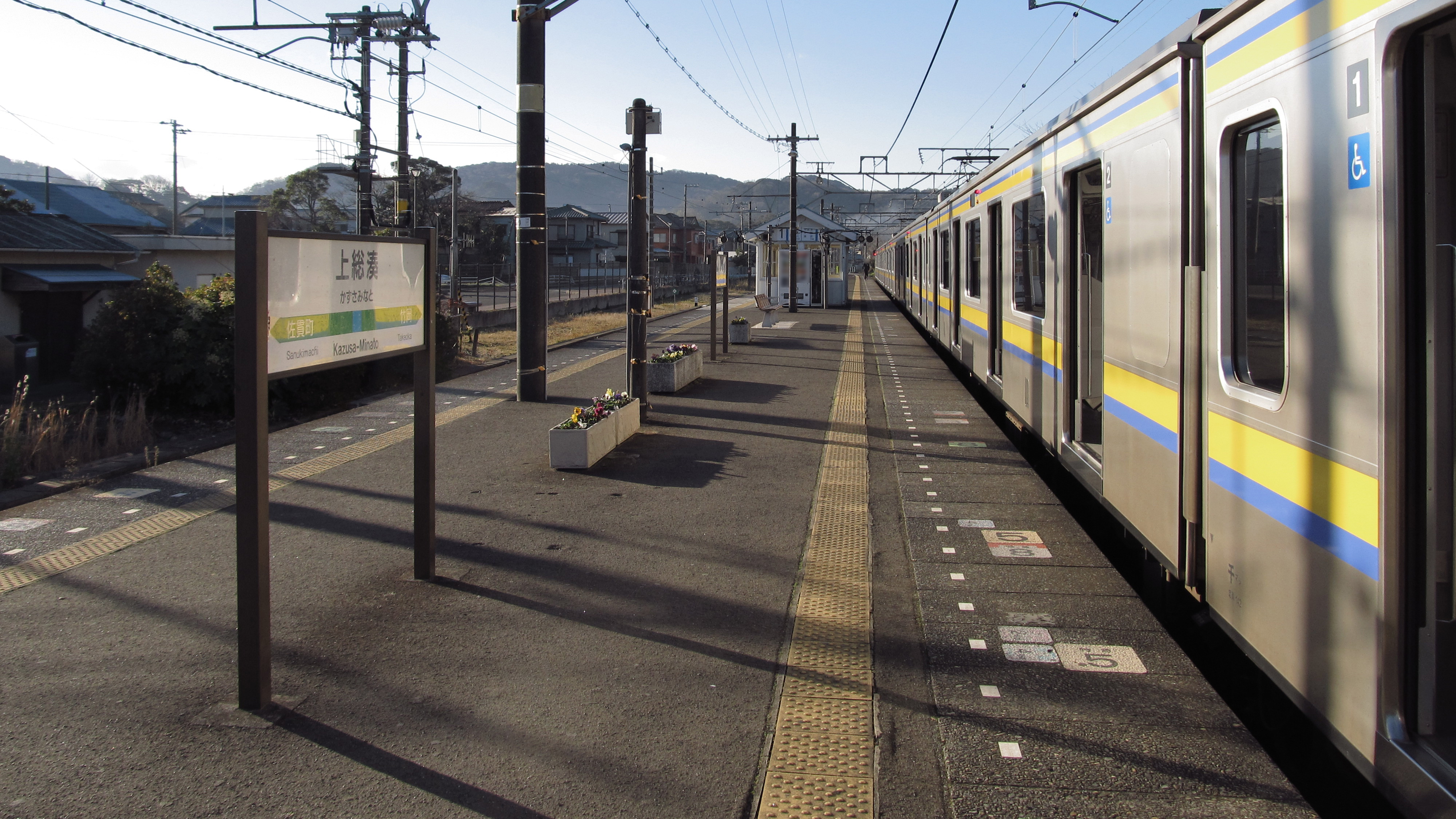 The platform at Kazusa-Minato Station on the Uchibō Line in Futtsu city, Chiba prefecture, Japan